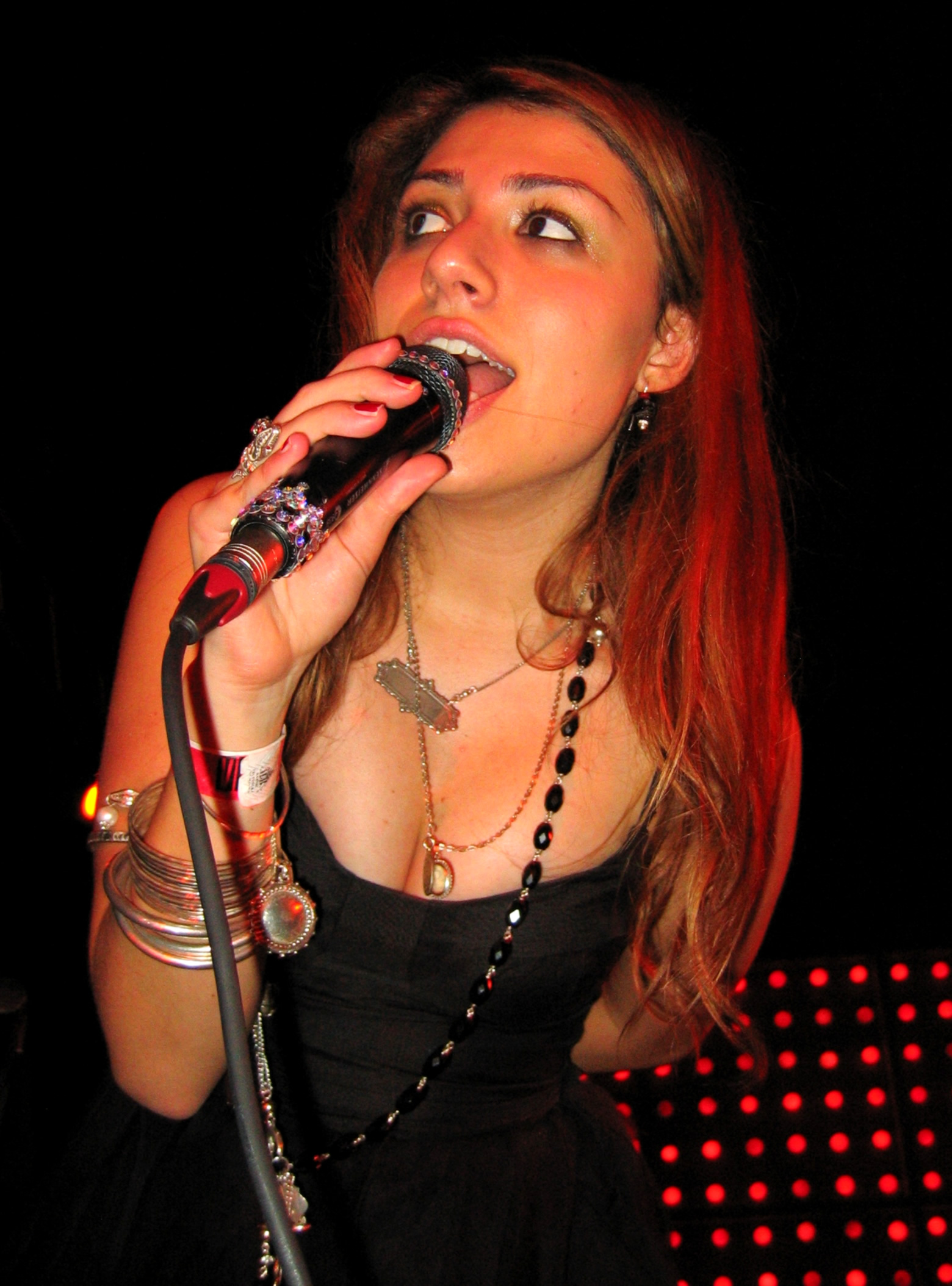 Gabriella Cilmi at Mandarin Kasino, Hamburg